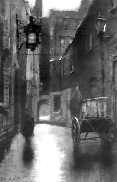 Painting of the Marshalsea prison in the early 1900s, after it closed down. Possibly created when the artist visited London in 1913.